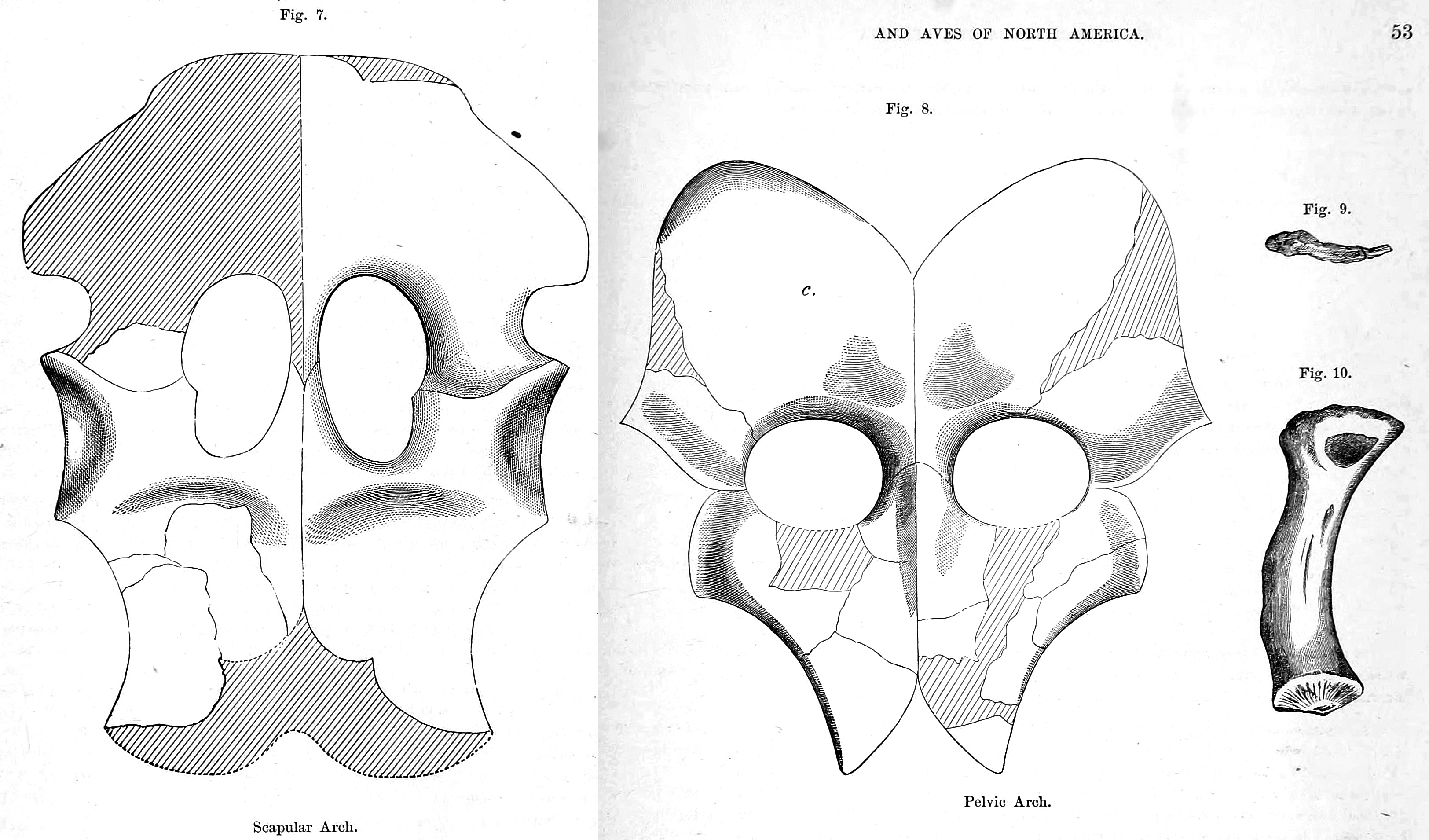 Pectoral and pelvic bones of Elasmosaurus, which are now lost